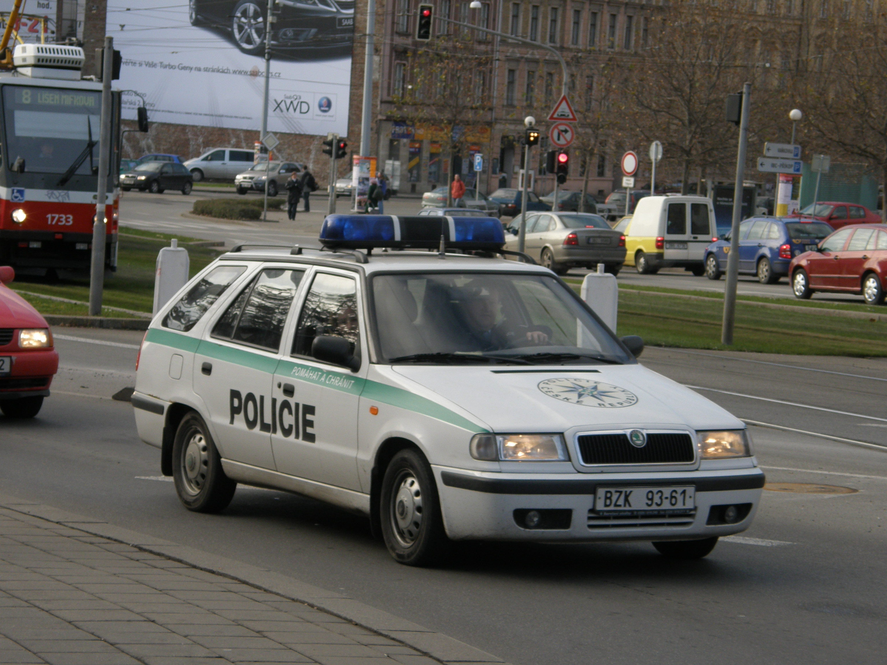 Police cars in the Czech Republic